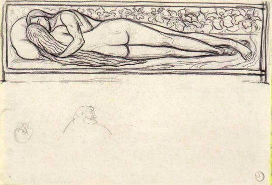 George Lacombe- La Conception musee beaux arts quimper